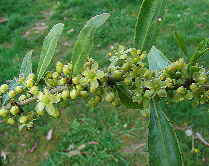 Known in Chile as Maiten. In context at